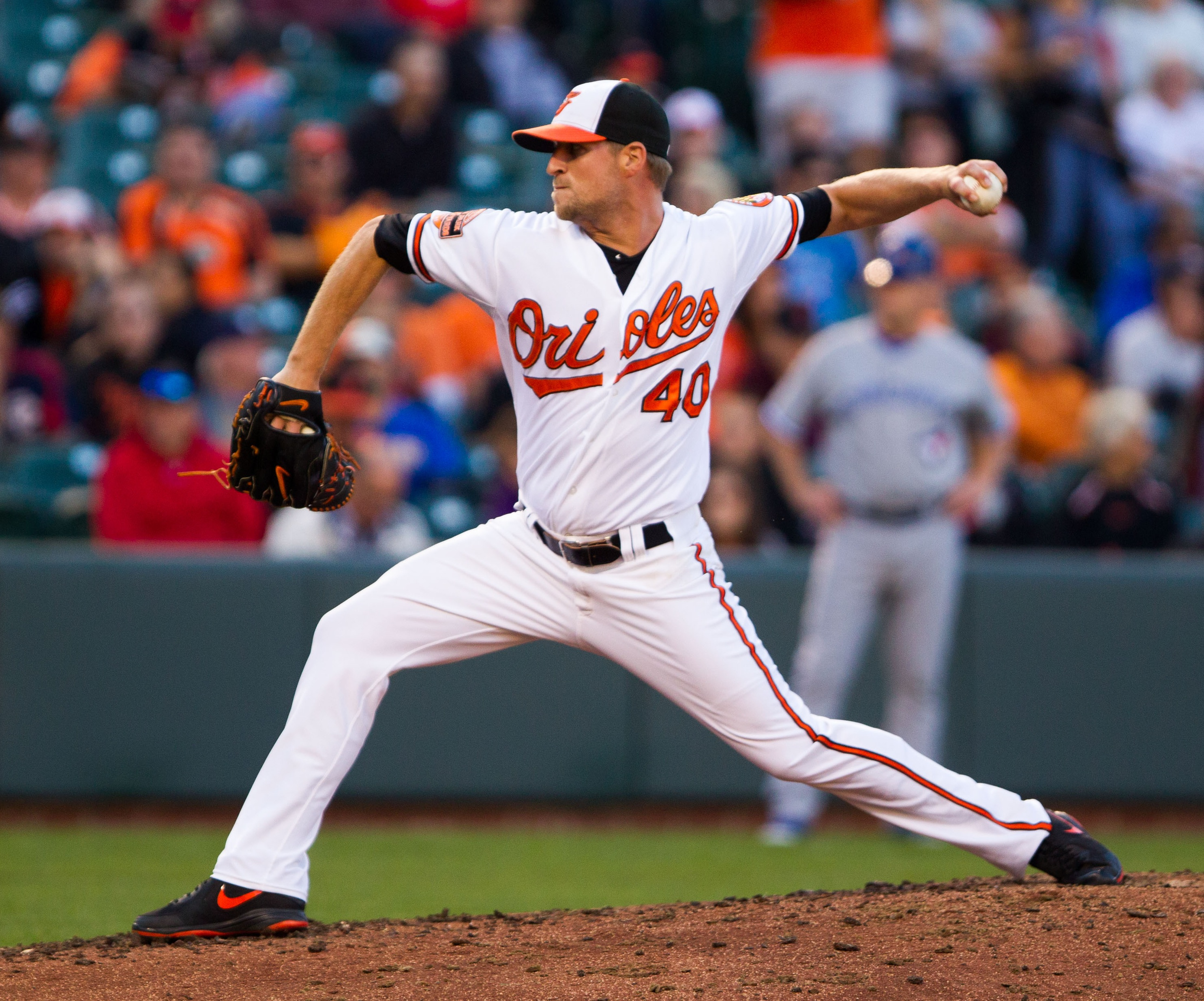 Orioles pitcher Troy Patton – Toronto Blue Jays at Baltimore Orioles September 24, 2012